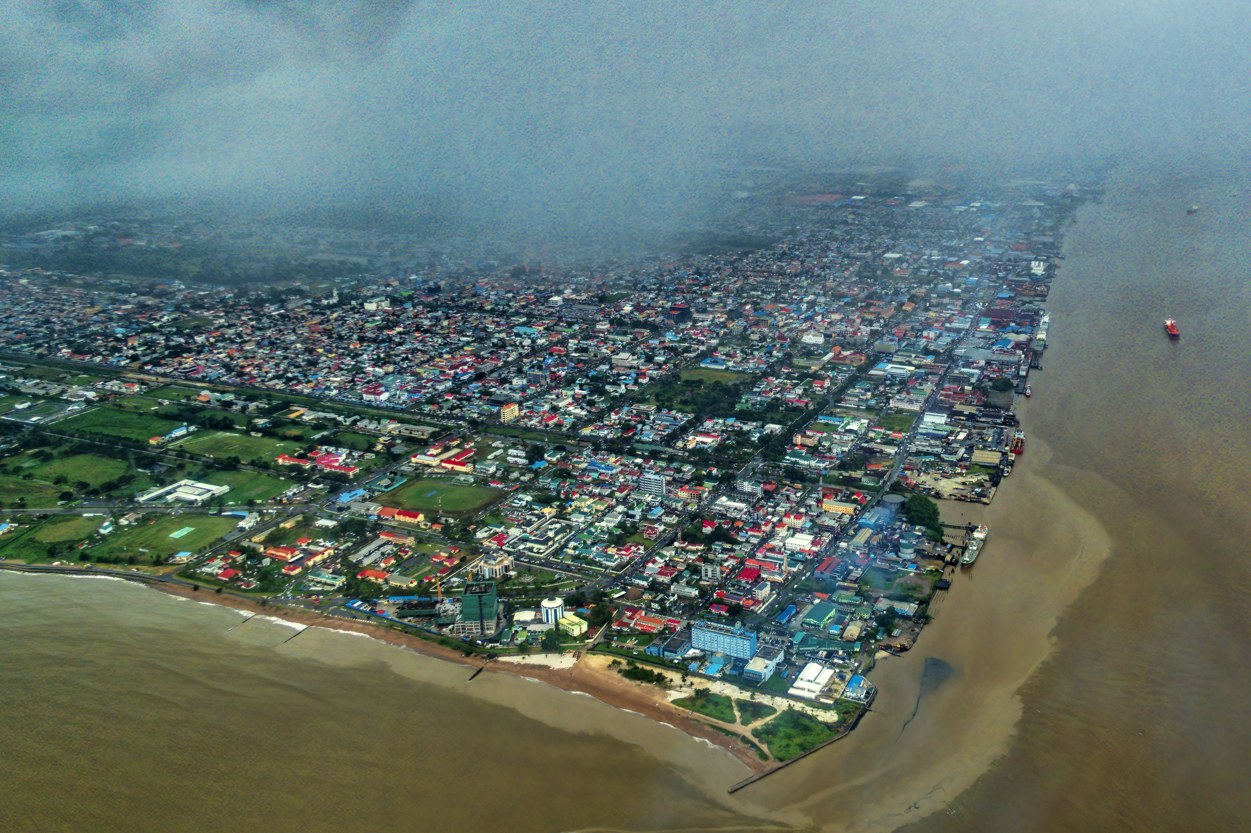 Georgetown, at the mouth of the Demerara River, is where the British established a town in 1781 when they captured the territory from the Dutch. The French colonized in 1782 making the town the capital named Longchamps. The Dutch reclaimed the area in 1784, renaming the town Stabroek after the president of the Dutch West India Company. The British returned and the town became Georgetown in 1812 in honor of King George III. Today Georgetown is the capital and commercial center of Guyana with the nickname ‘Garden City of the Caribbean’ for its tree-lined streets in the older parts of town.